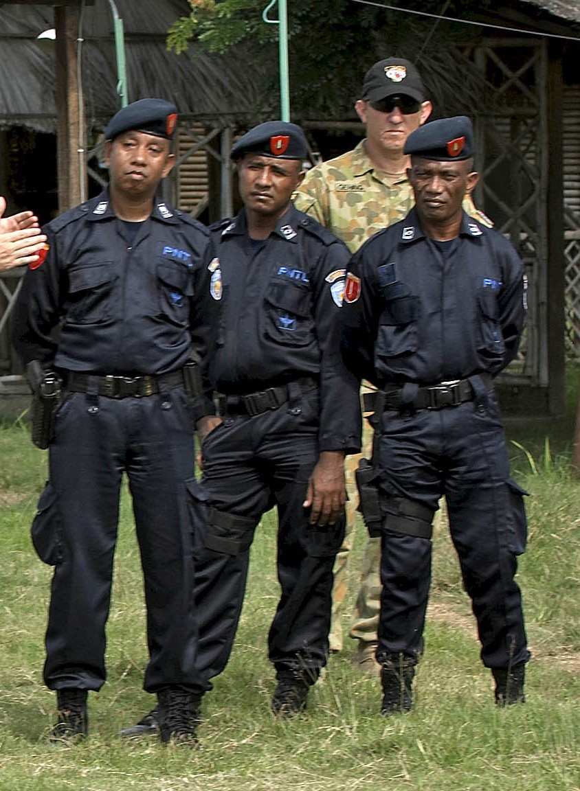 20 Timor - ISF: ISF equipment and tactic demonstration to PNTL 'Members of the The International Stabilisation Force Quick Response Force demonstrate their equipment and tactics to members of the East Timor National Police Rapid Intervention Unit'. (25 Feb 09)